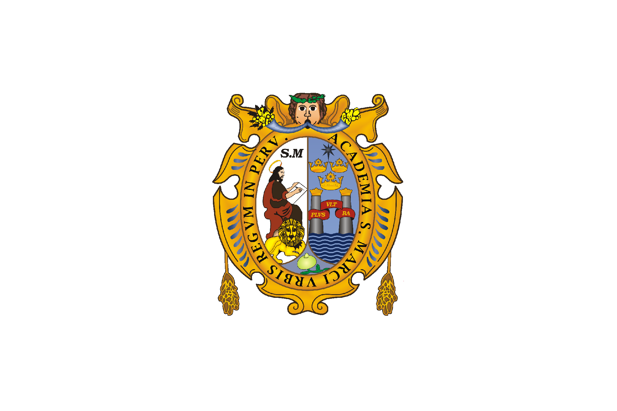 Flag of the National University of San Marcos (Lima, Peru)